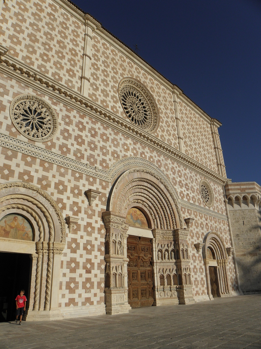 L'Aquila 2010